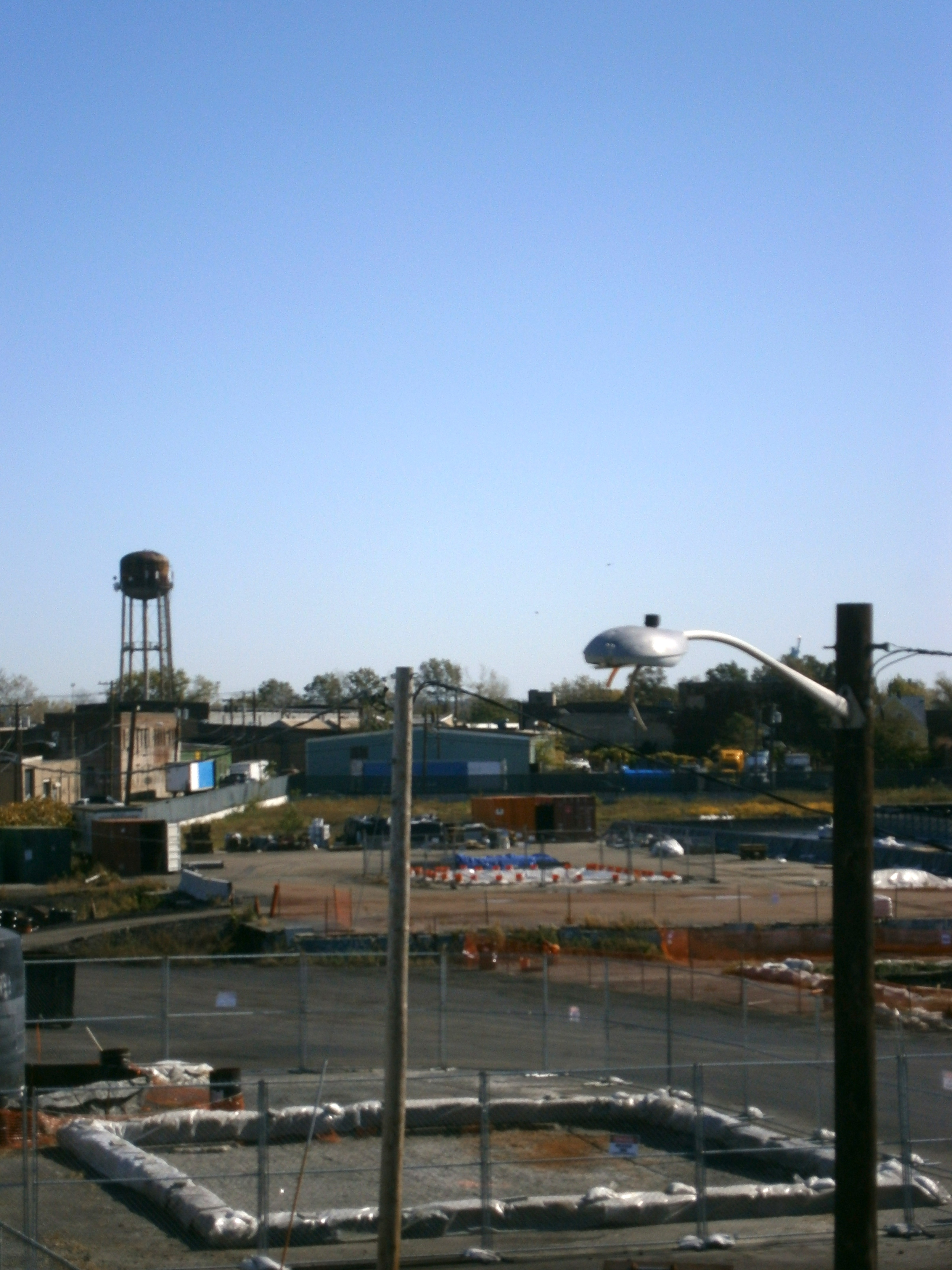 Canal Crossing is a new urbanism project in Jersey City undergoing remediation projects in 2011